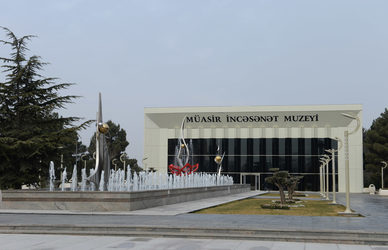 Ilham Aliyev attended the opening of the Heydar Aliyev Park Complex and the Heydar Aliyev Center in Ganja